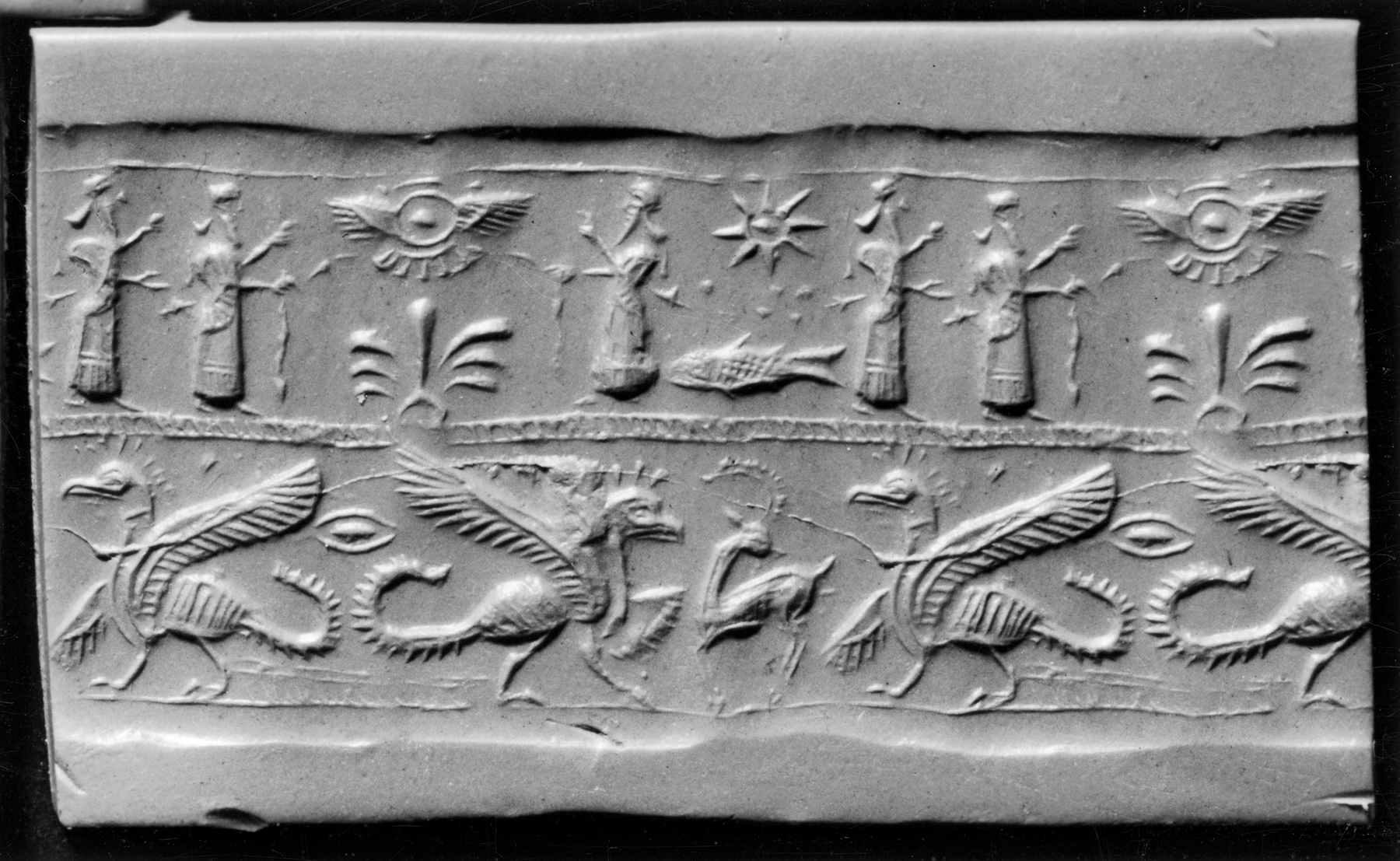 Appearing in the upper register of this seal, 3 figures flank a stylized sacred tree with a winged disk above. Two winged monsters with eagle heads and scorpion tails flank a falling goat in the lower register. The linear style of carving of this seal is characteristic of the 9th and 8th centuries BC.